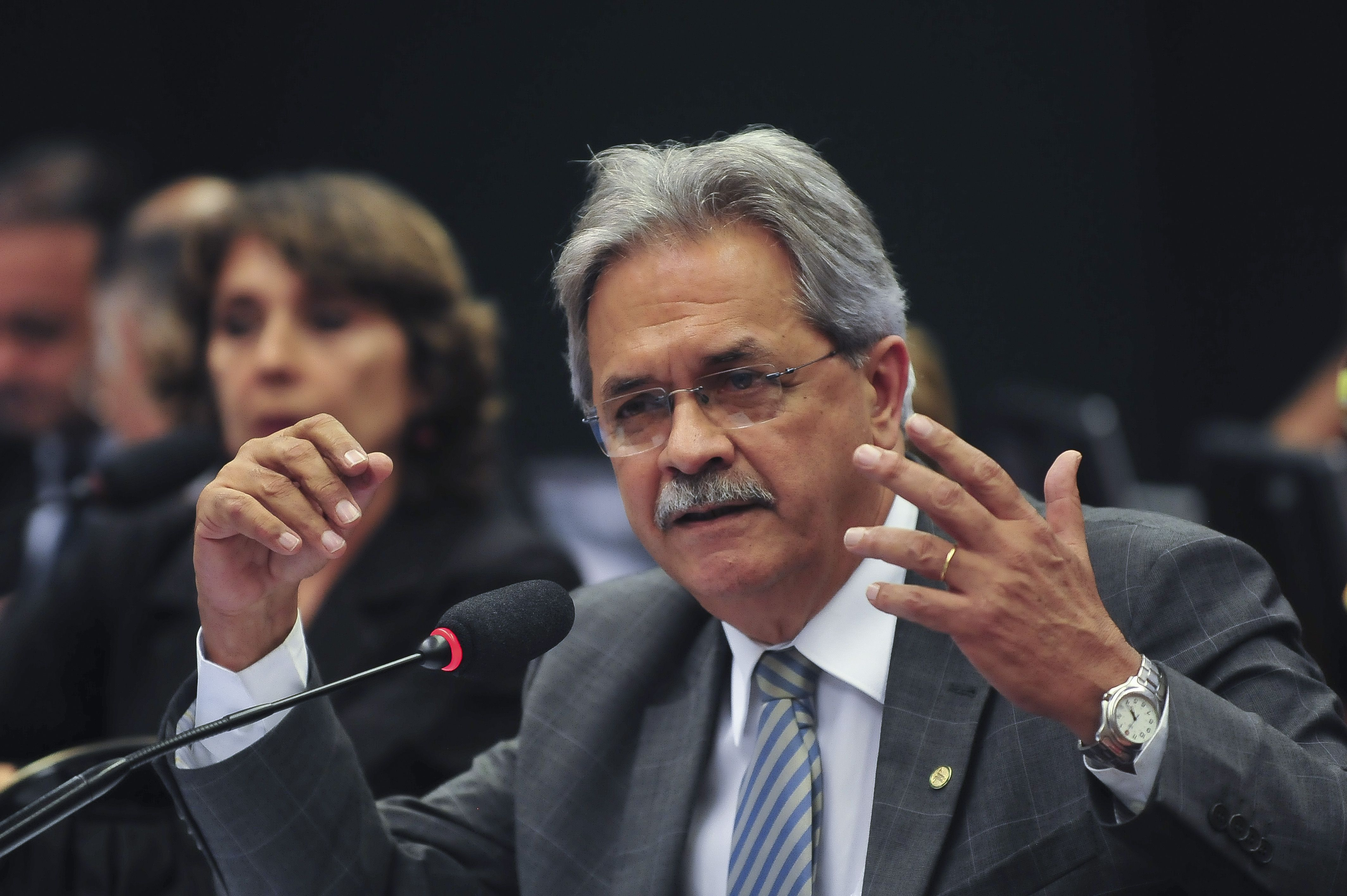 CCBY3.0 license